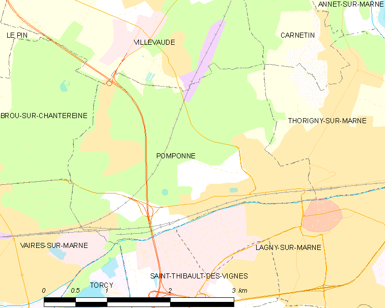 Map of French municipality Pomponne